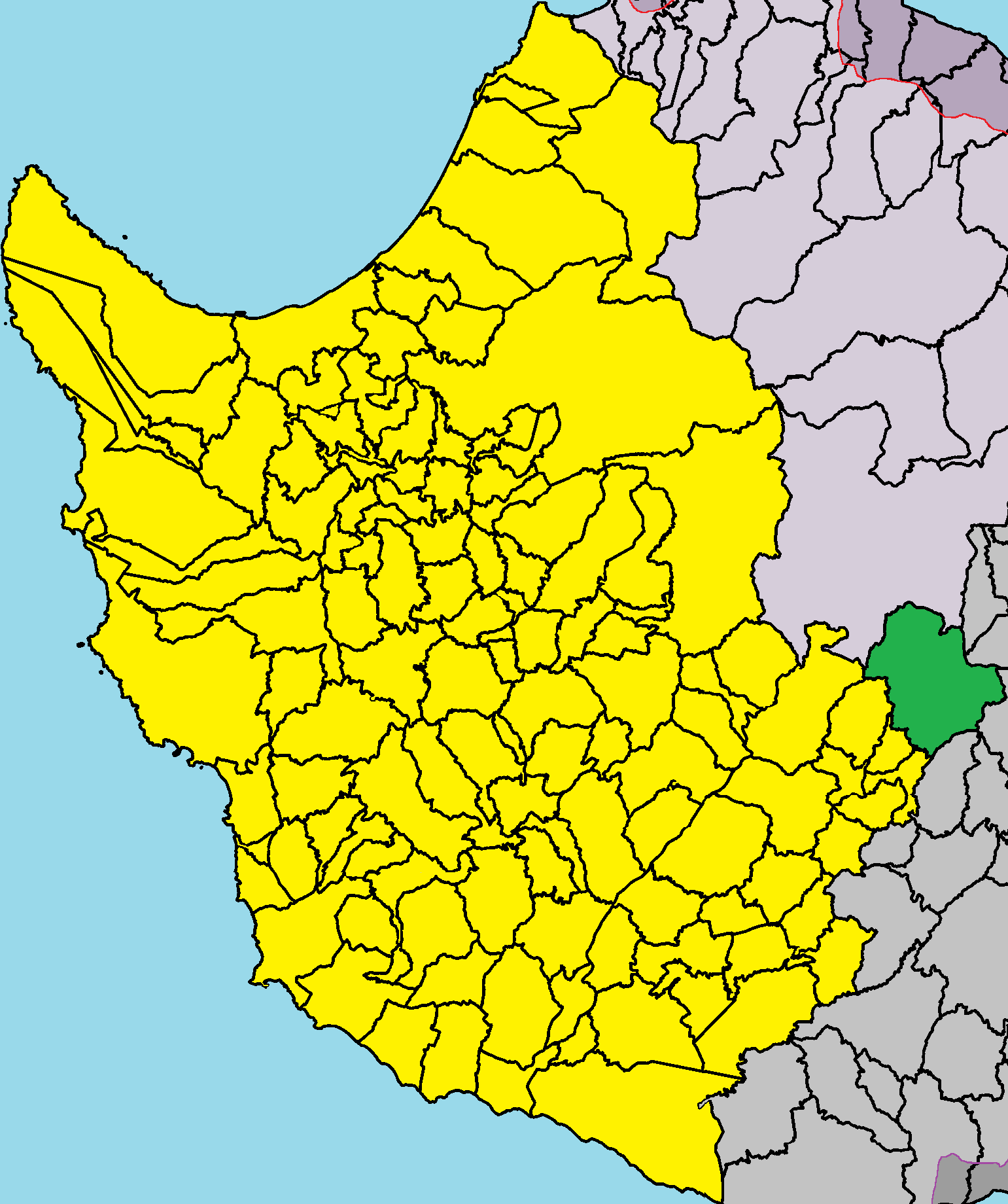 Agios Nikolaos in Paphos District.